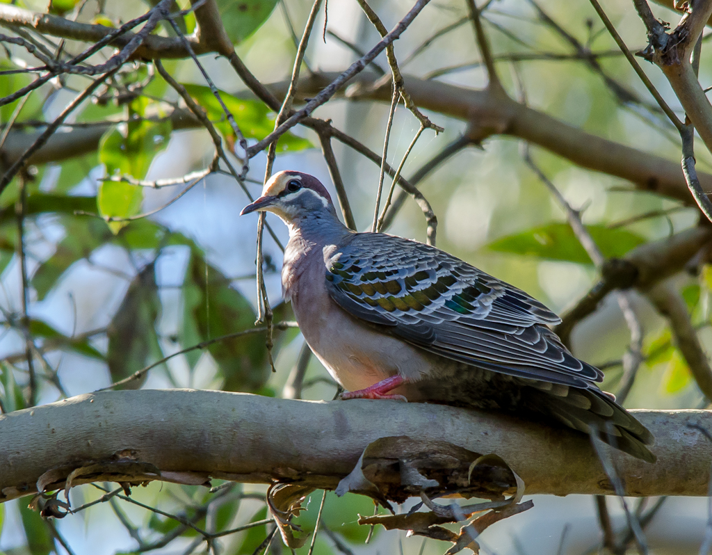 A male Common Bronzewing in Brisbane, Queensland, Australia.